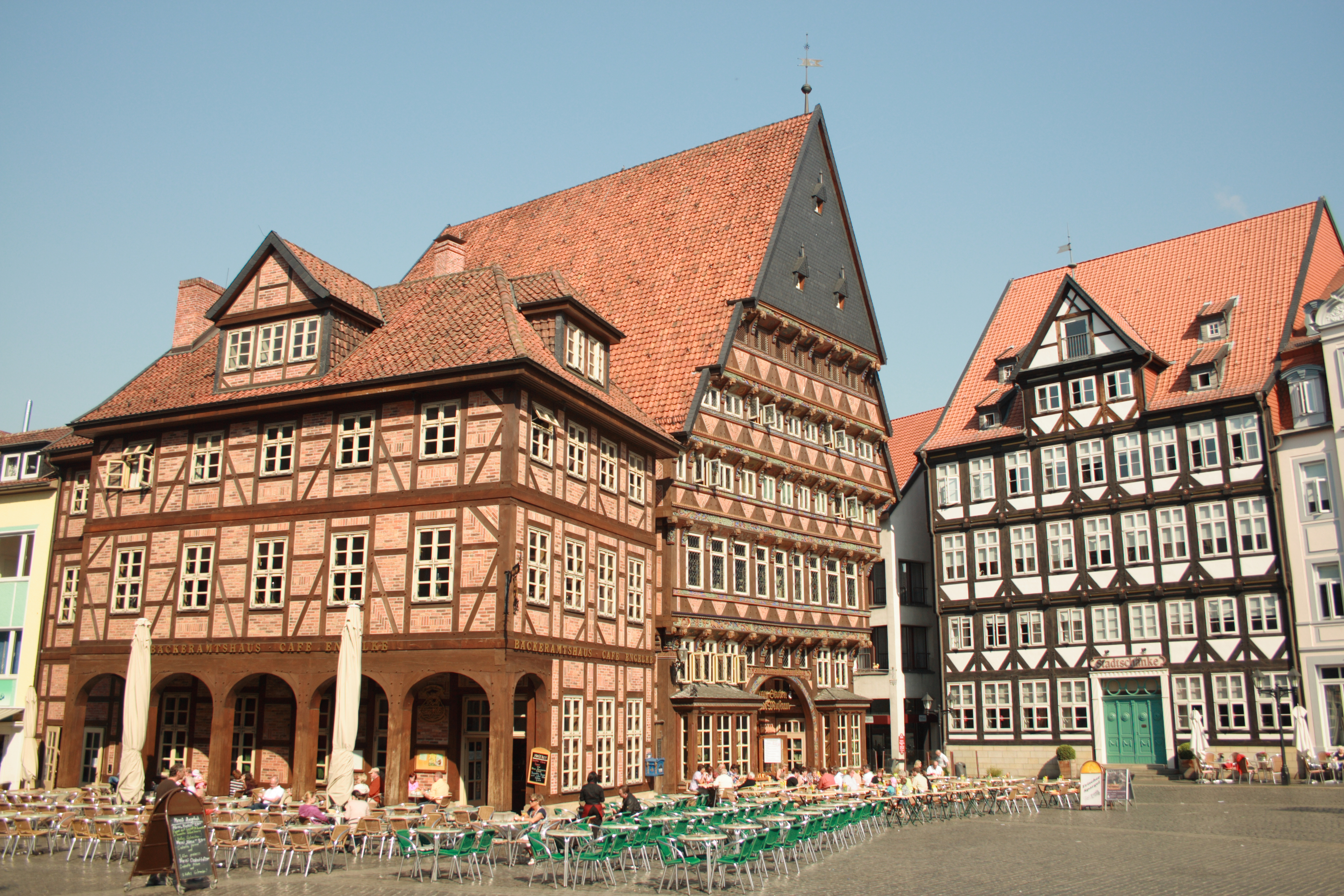 Knochenhaueramtshaus in Hildesheim, Germany.